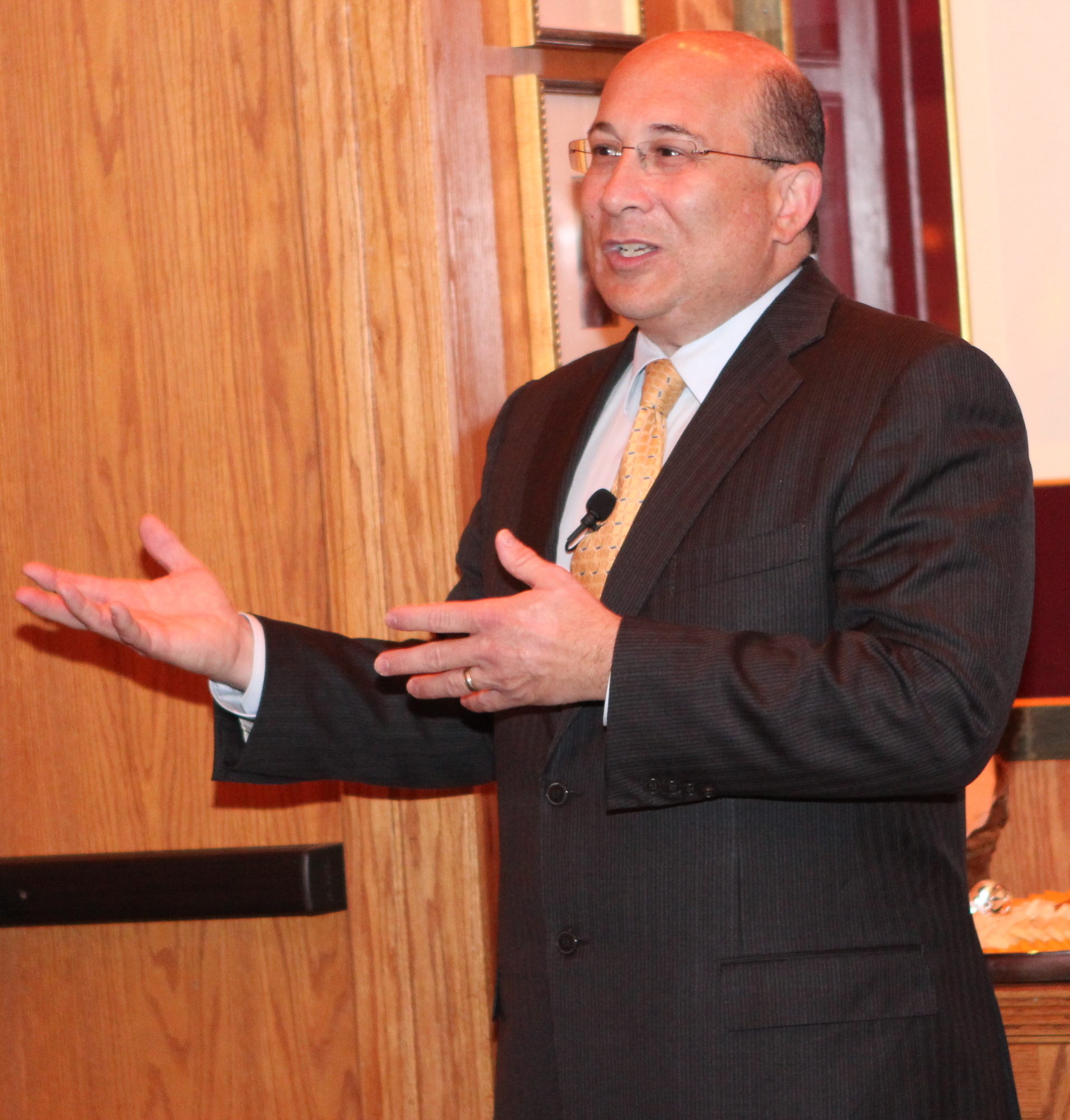 at the Detroit Regional Chamber 2012 Mackinac Policy Conference